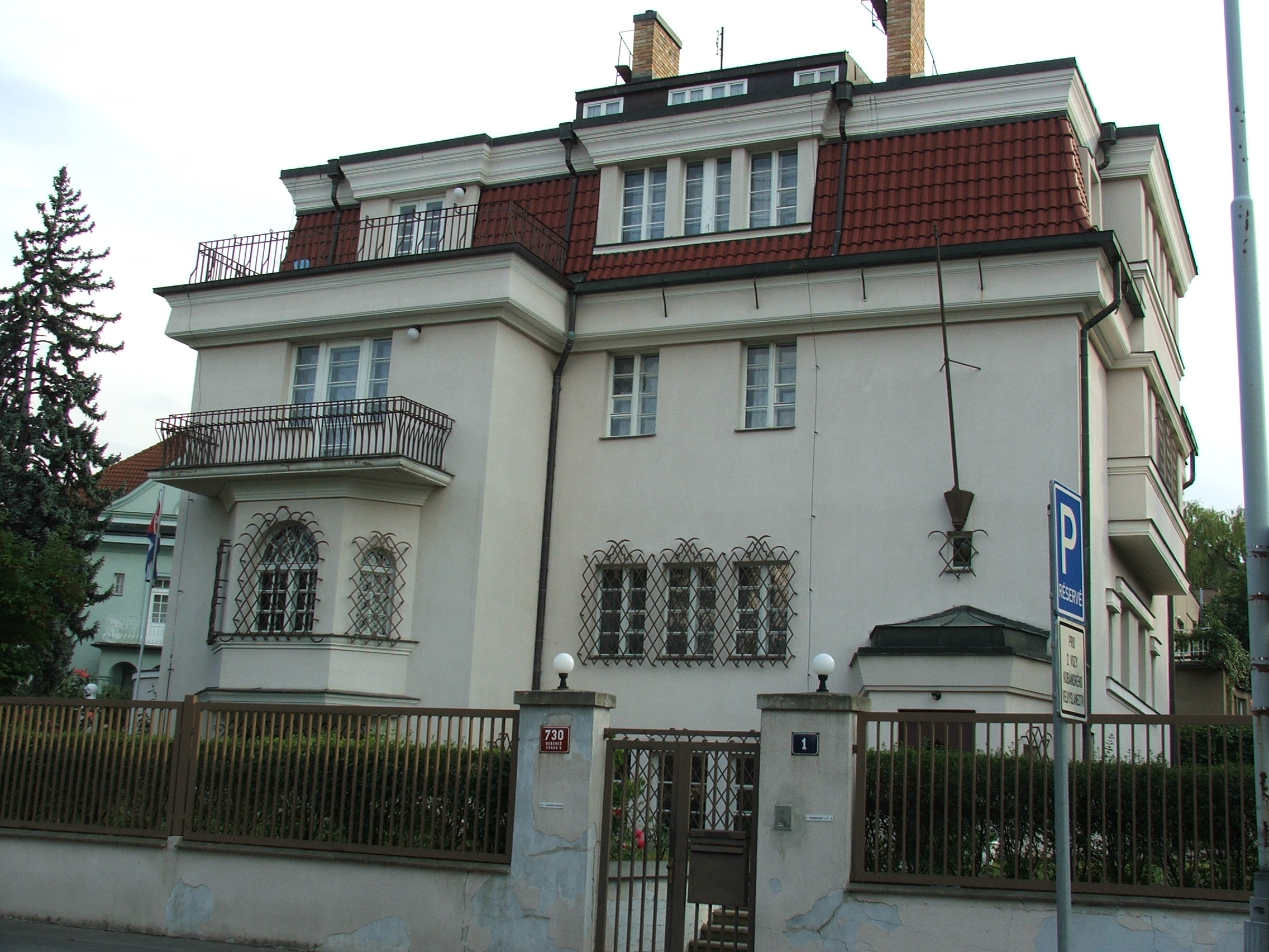 Embassy of Cuba in Prague - Bubeneč, Czechia.